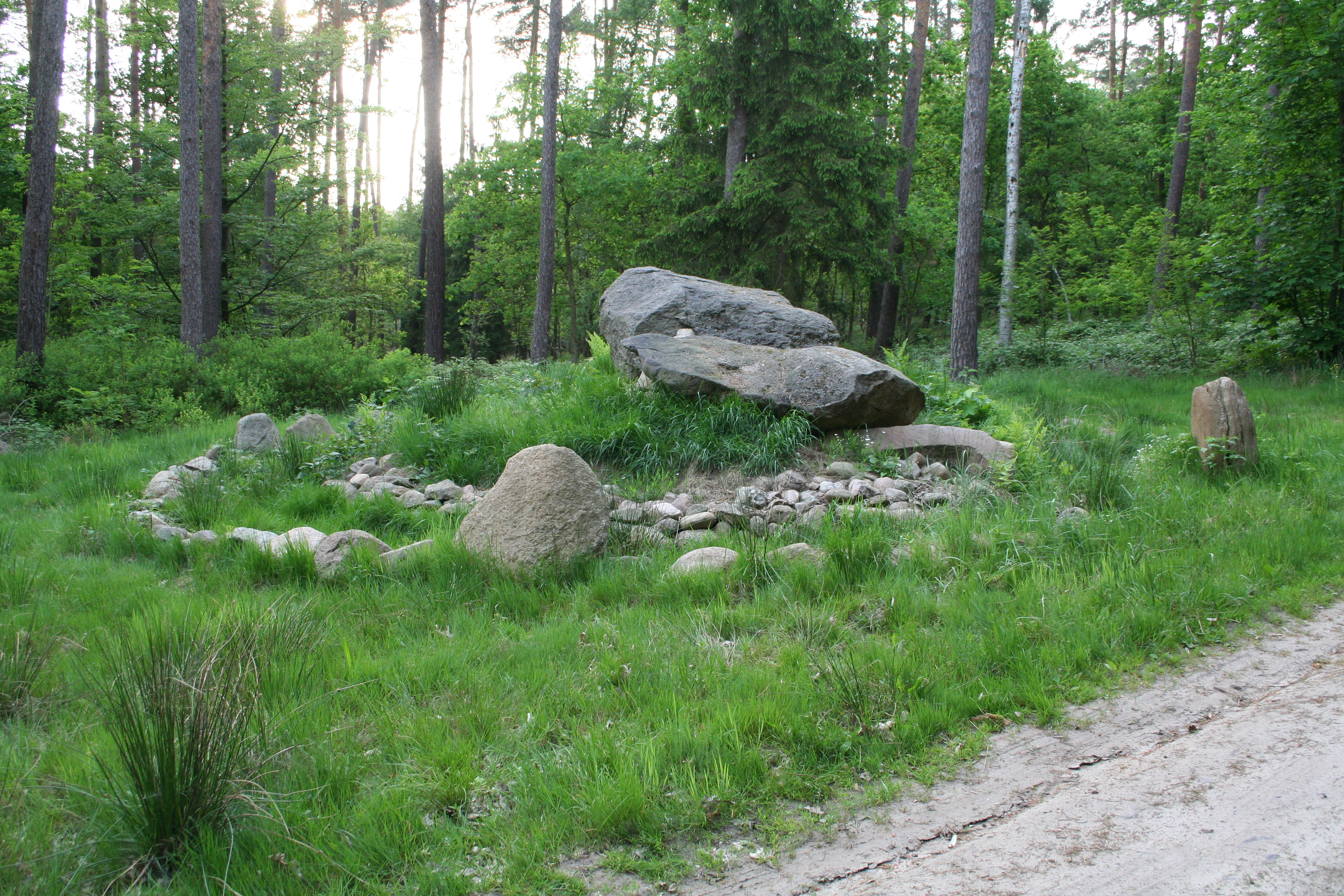 Dolmen 3 near Lüdelsen, Altmark